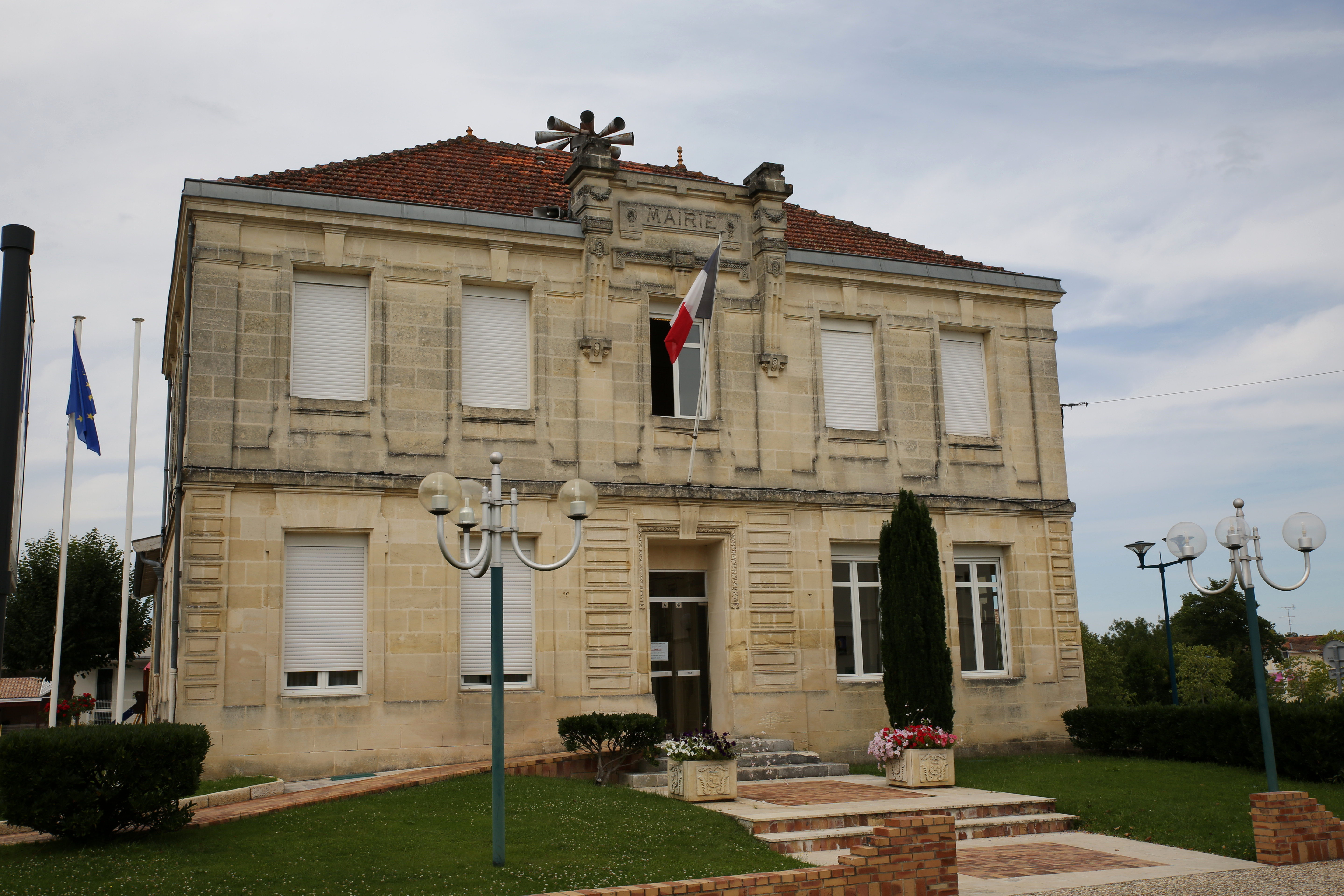 Mairie de Camblanes